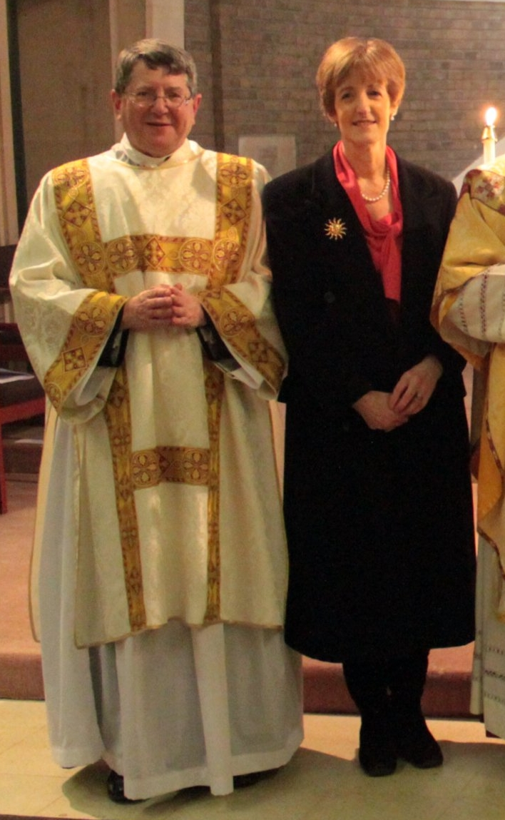 Keith Newton and his wife Gill Newton after Newtons ordination as catholic deacon.